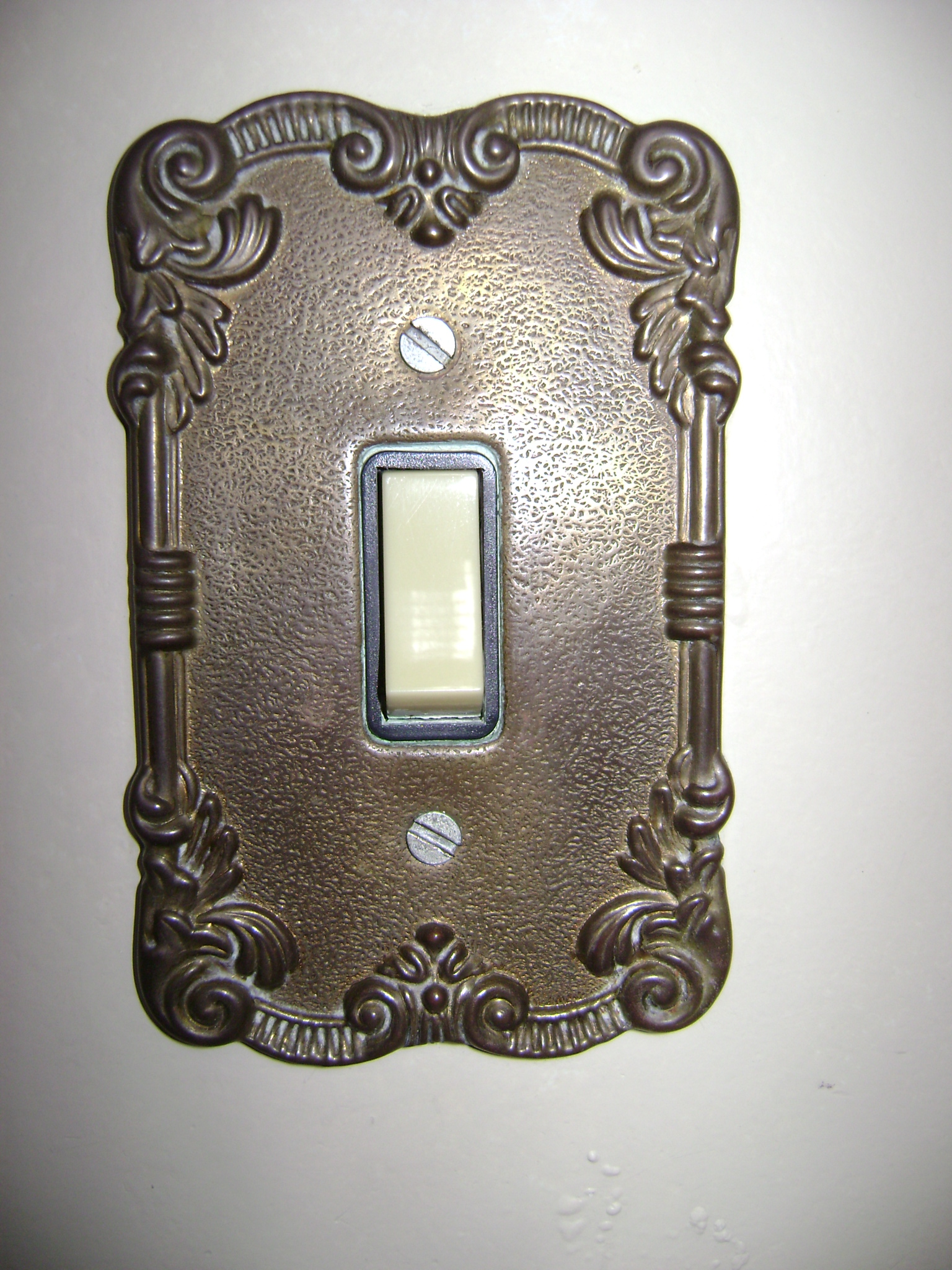 Interruptor